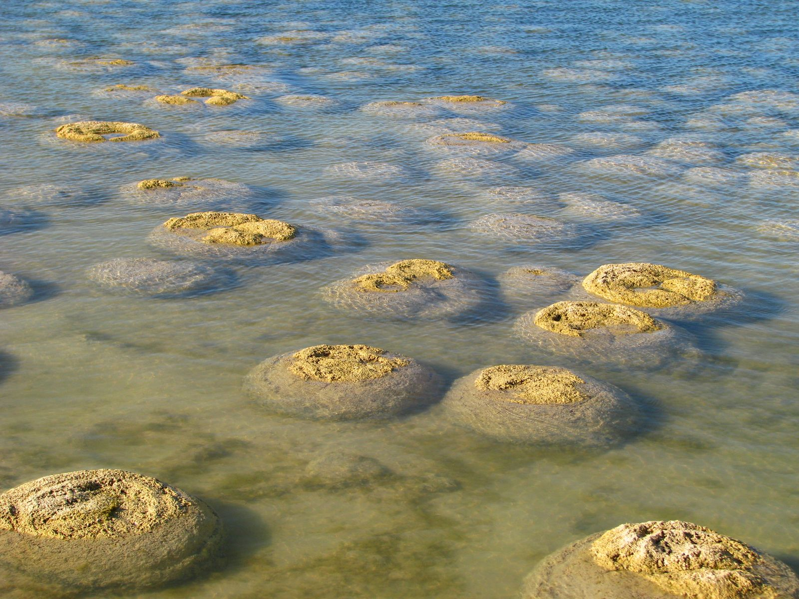 Stromatolites growing her in Yalgorup national park in Australia (there are also other stromatolithes in Shark Bay and in Western Australia. Stromatolites are "attached, lithified "sedimentary" growth structures, accretionary away from a point or limited surface of initiation."